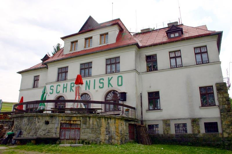 Hostel in Zwardoń Poland